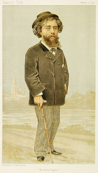 Caricature of Alphonse Daudet. Caption read "He wrote 'Sapho'".